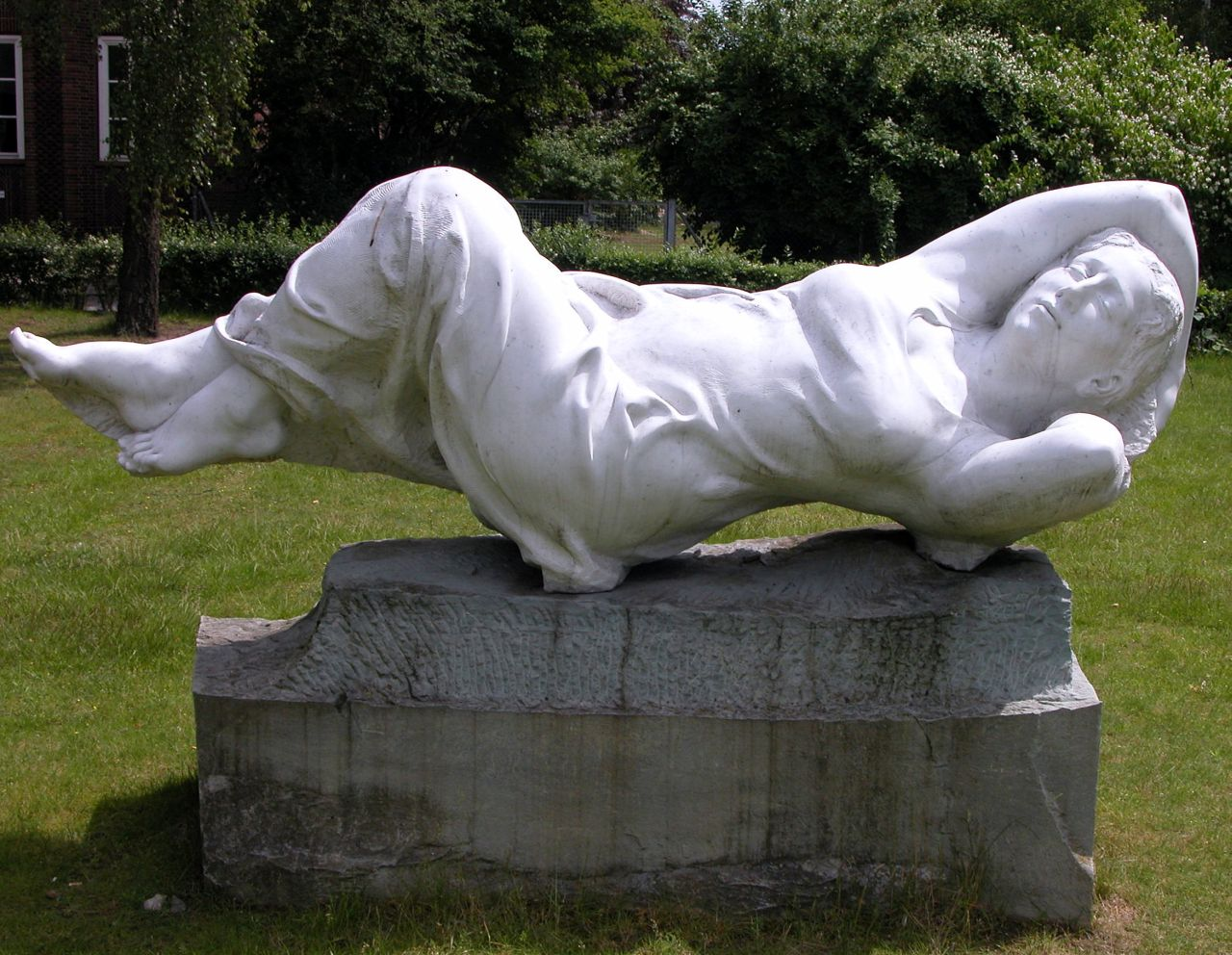 Brunswick, Germany: Laodicea.